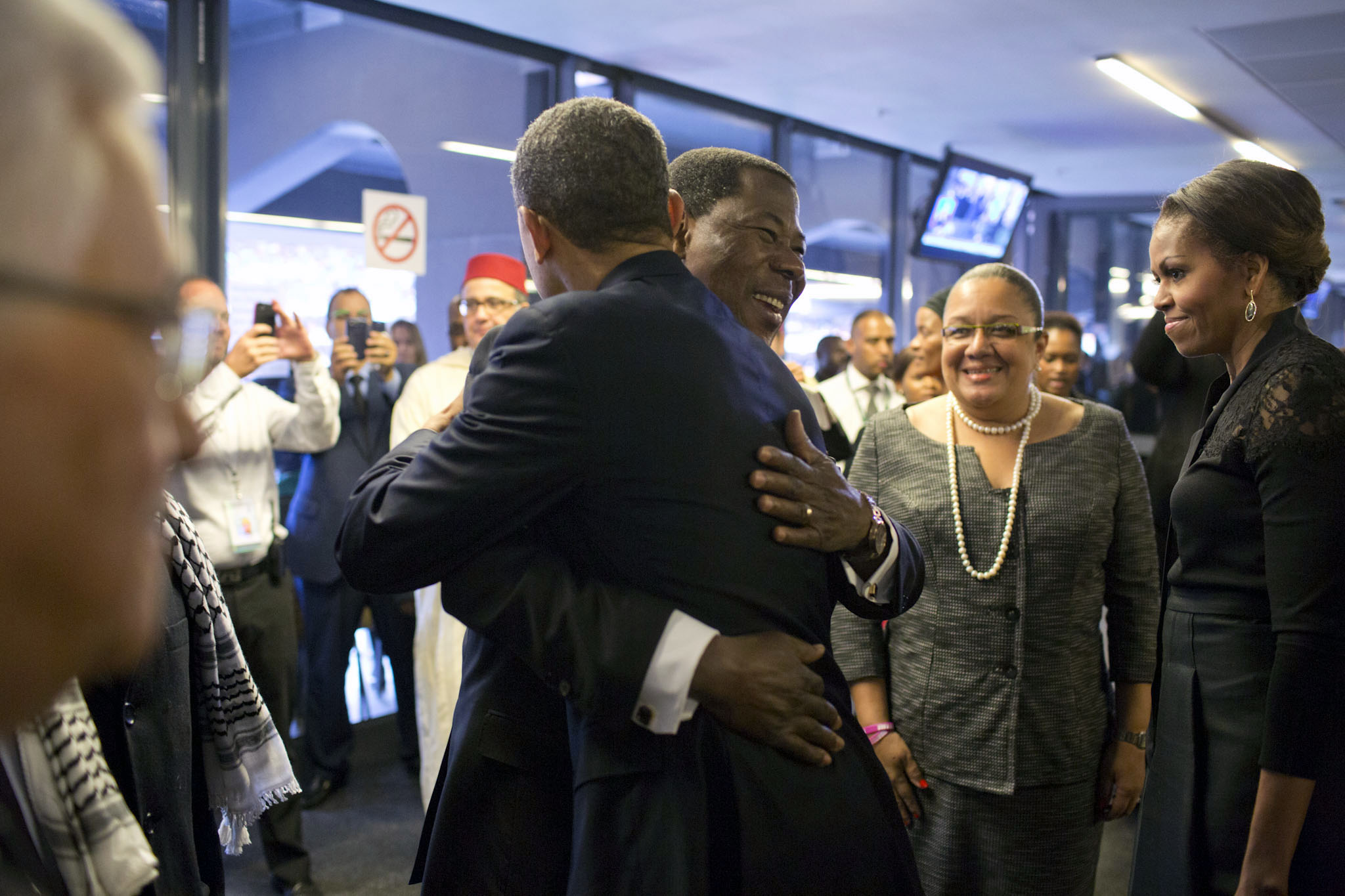 President Yayi Boni of Benin welcomes President Obama as he arrives at the soccer stadium for the Nelson Mandela memorial service. (Official White House Photo by Pete Souza)